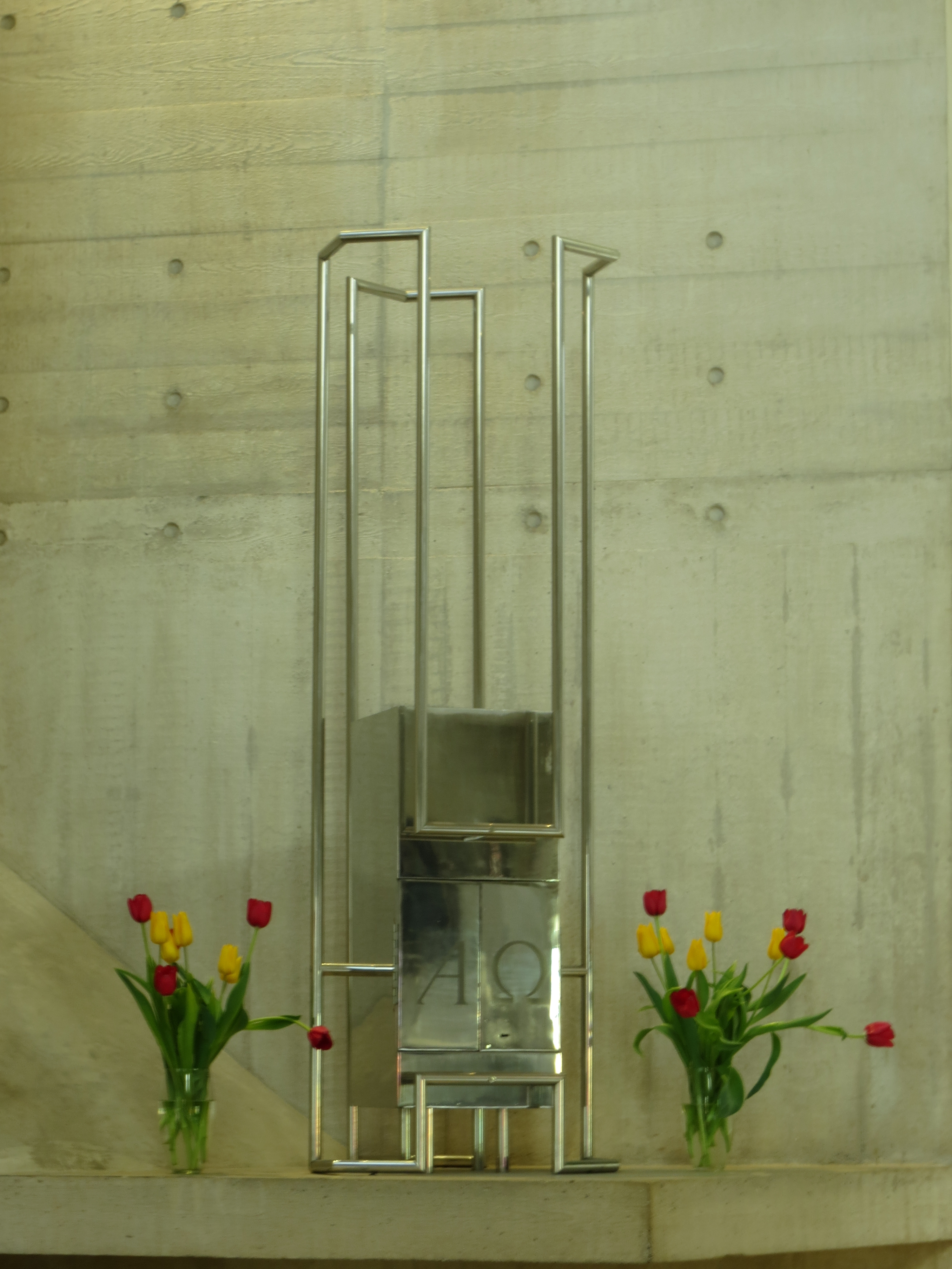 Clifton Cathedral, Clifton Park, Bristol BS8 3BX